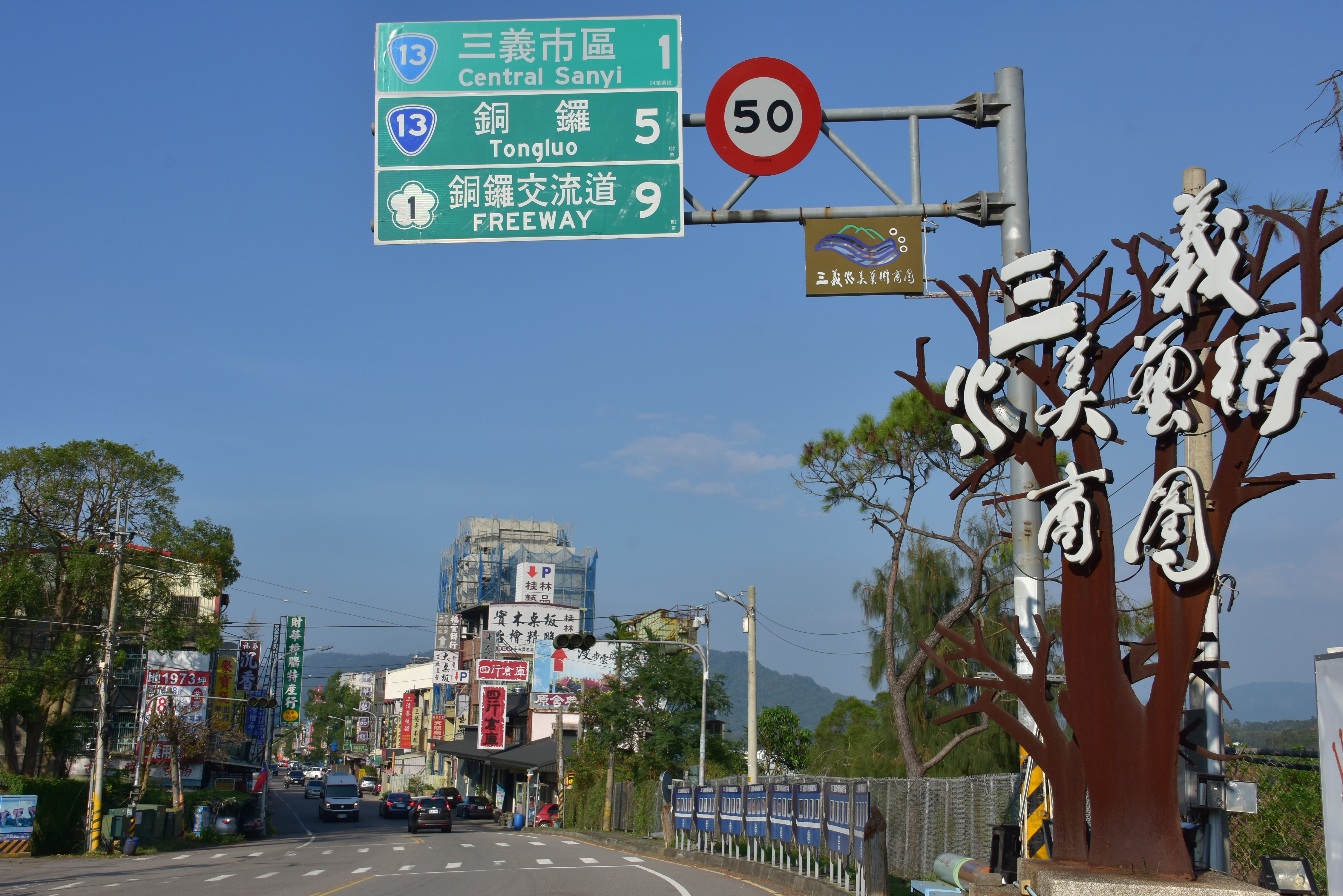 Provincial Highway 13 approaching Sanyi.